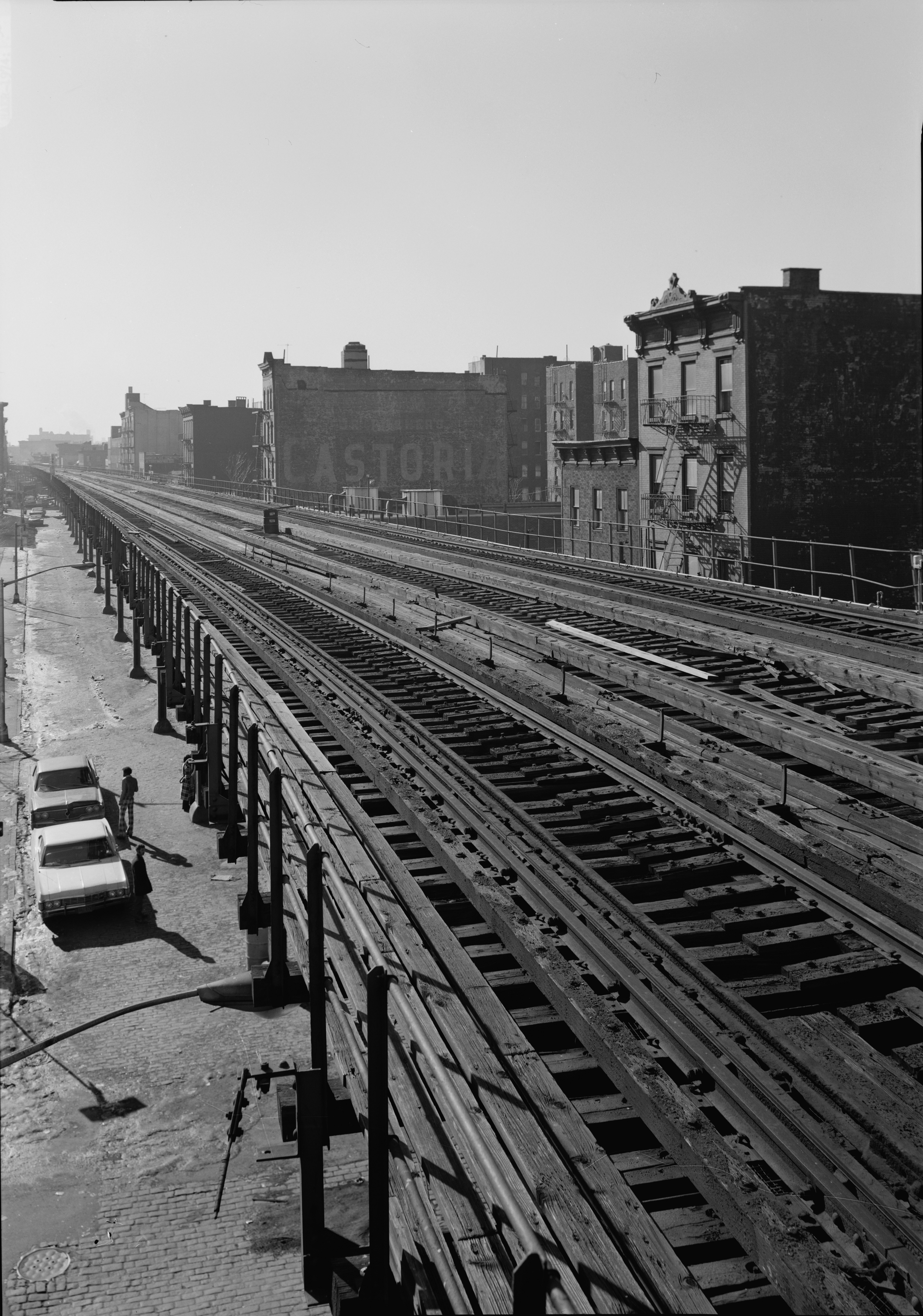 The Third Avenue Line at 169th Street, a part of the first Subway system constructed in New York City. Photographed by the Historic American Engineering Record between December 1973 and January 1974. Survey number HAER NY-68, photo 36.